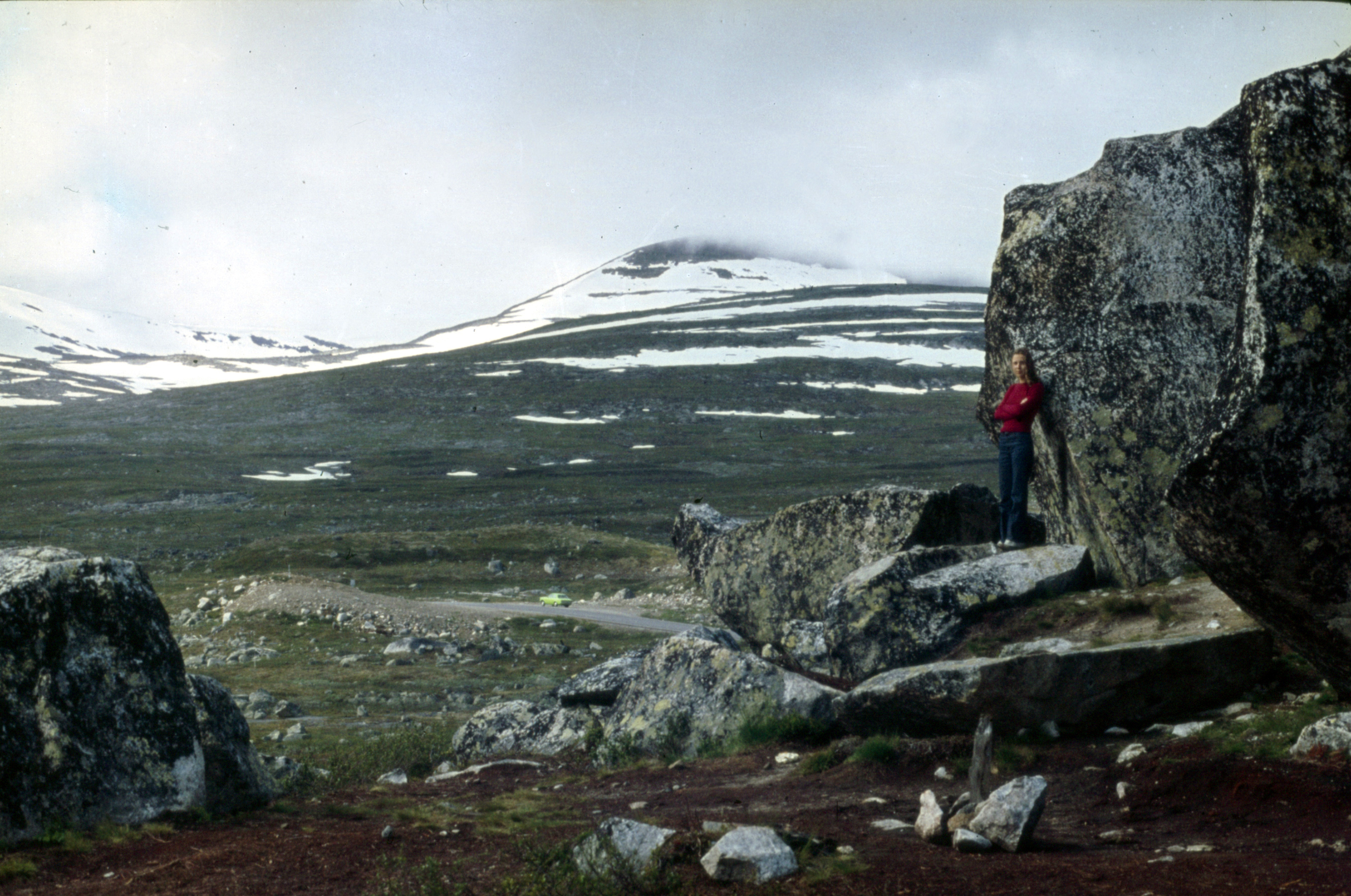 Arctic Circle in Norway 1975